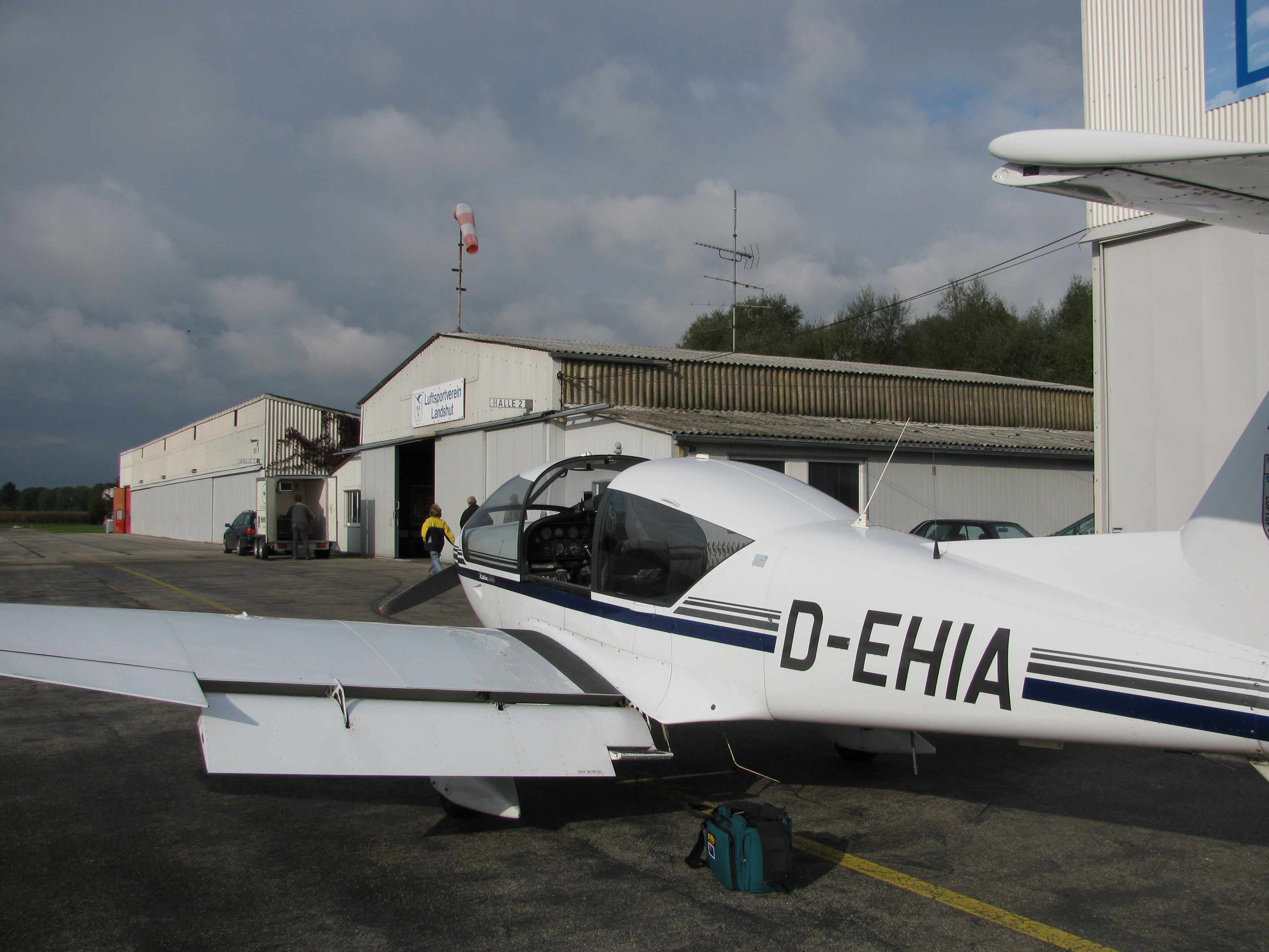 Robin 3000 D-EHIA on the tarmac of Luftsportverein Landshut